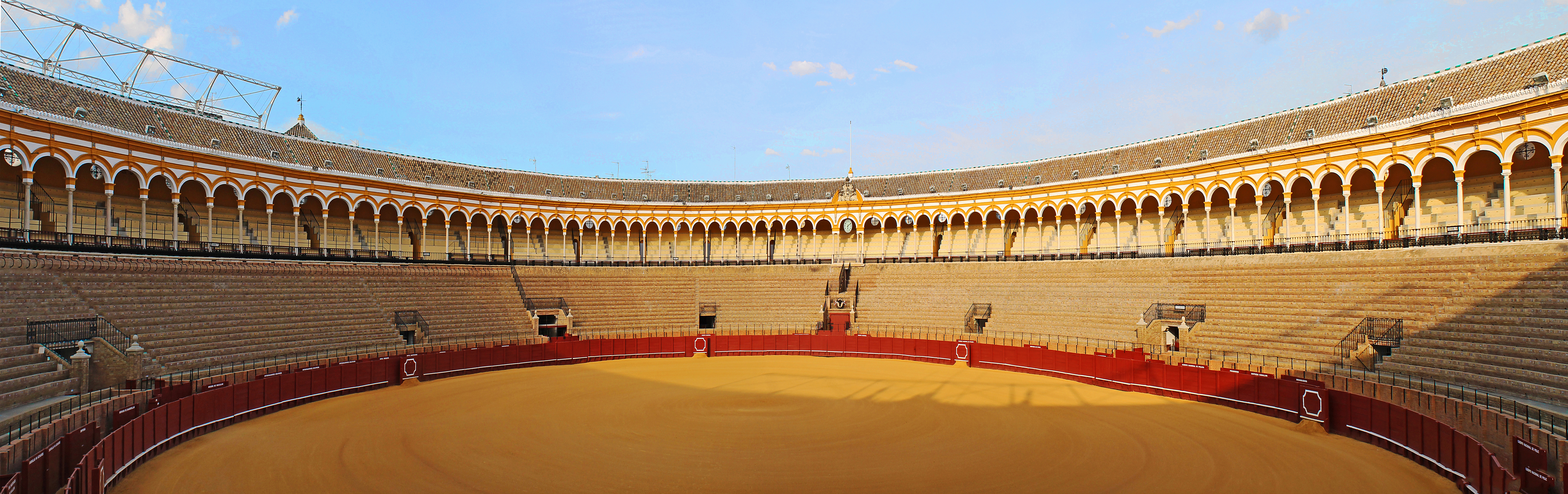 panoramic view of the arena in Seville